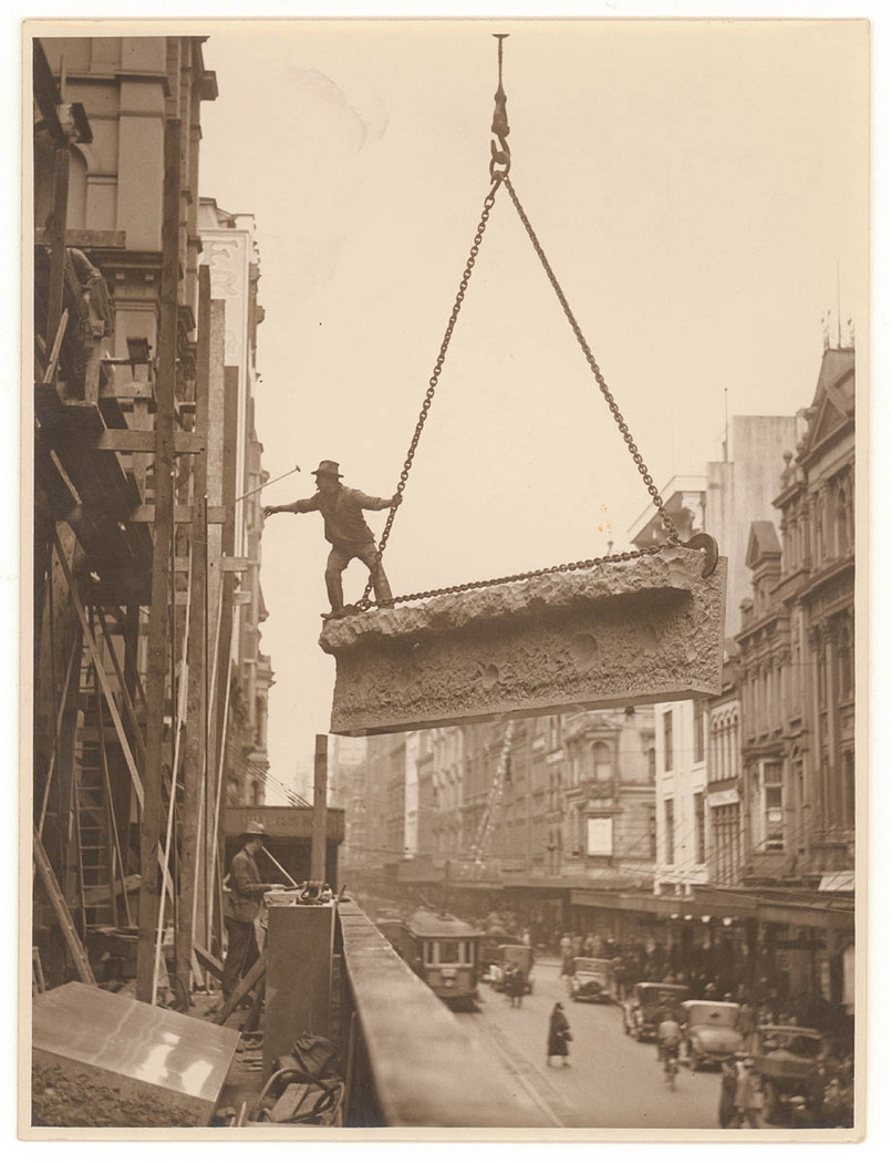 Format: Photograph Notes: Find more detailed information about this photographic collection: .au/item/itemDetailPaged.aspx?itemID=153437 Search for more great images in the State Library's collections: .au/search/SimpleSearch.aspx From the collection of the State Library of New South Wales